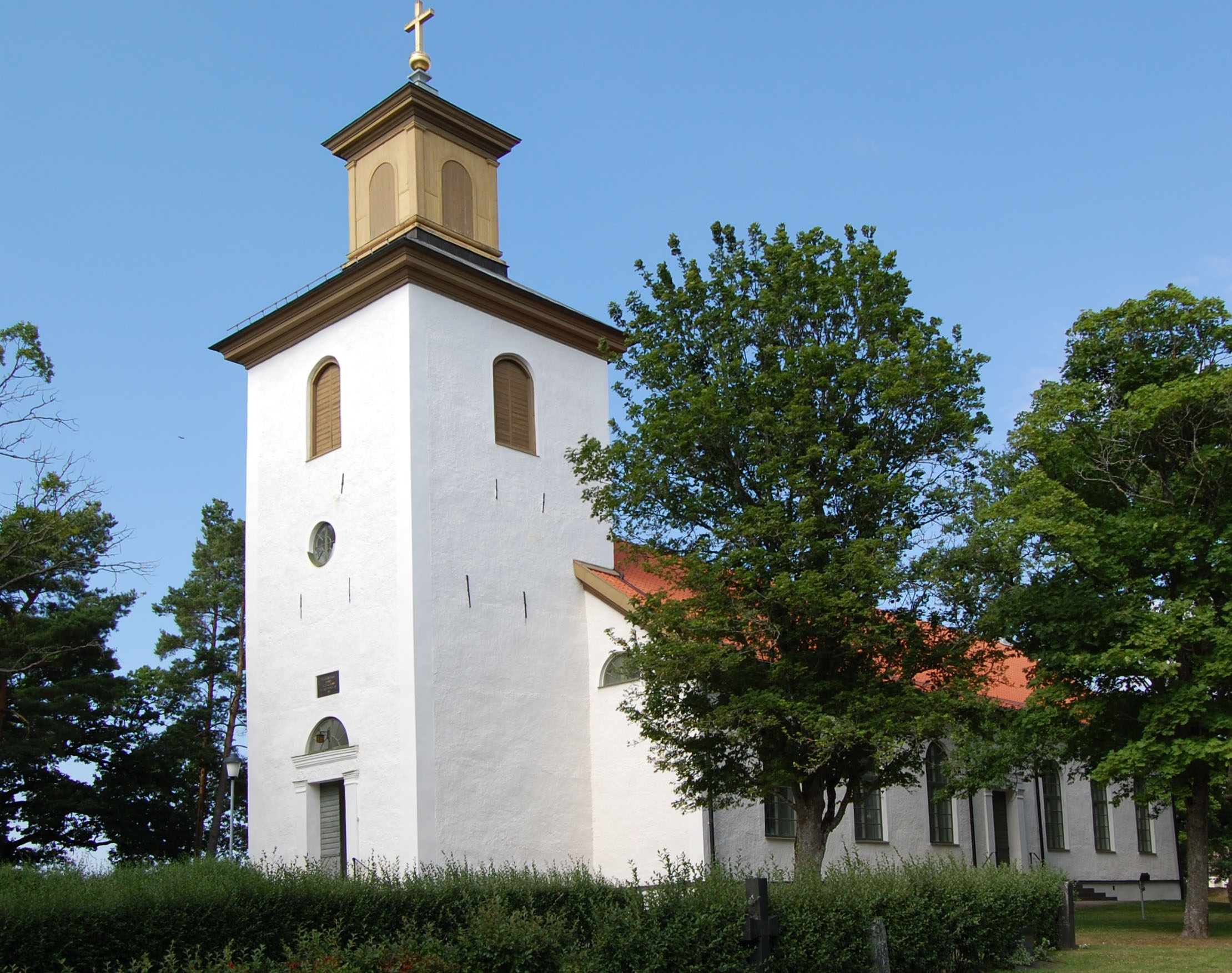 Långemåla Church.